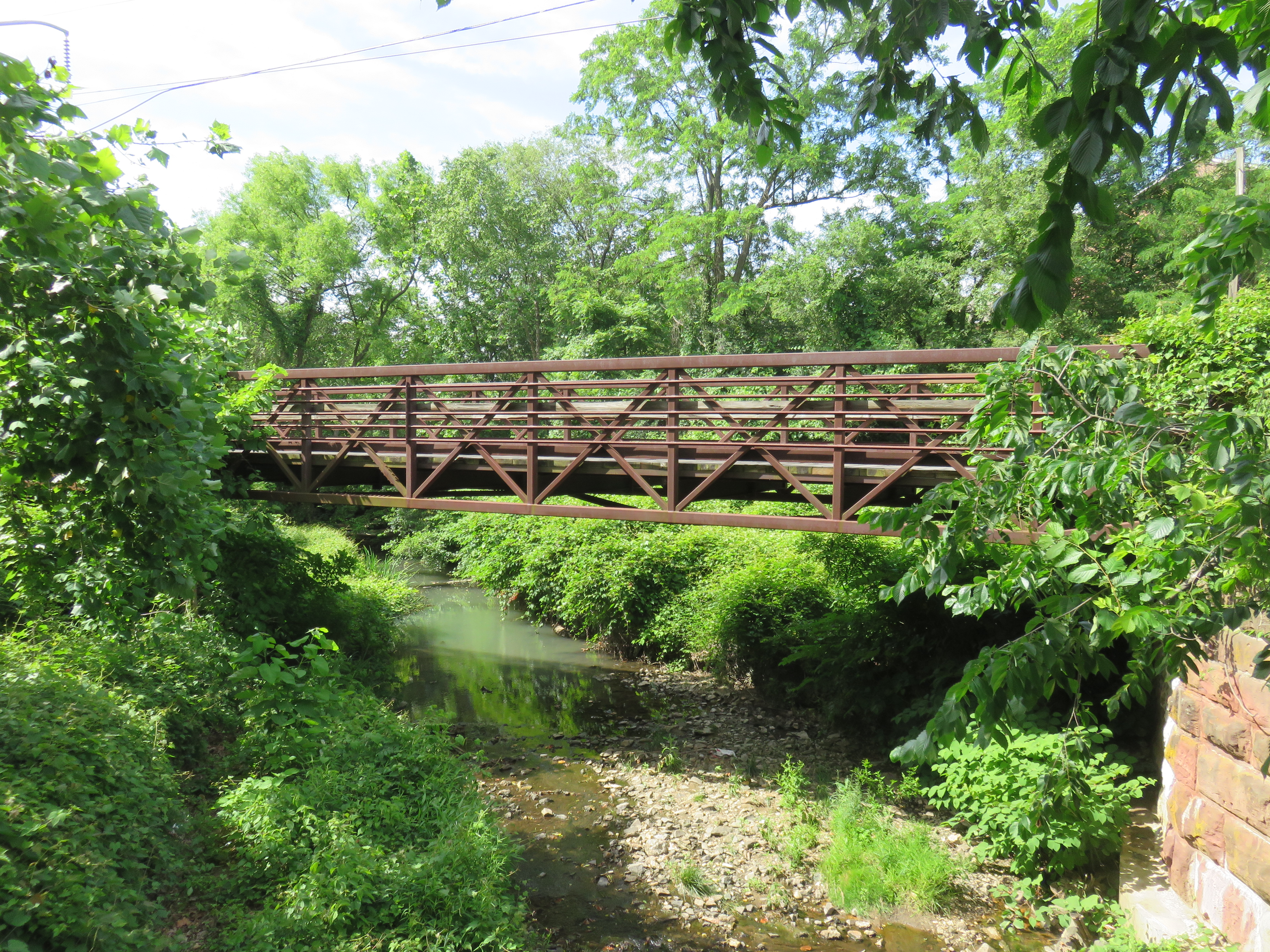 Washington & Old Dominion Trail Bridge near Little Falls Road over Four Mile Run in Arlington, Virginia in 2020